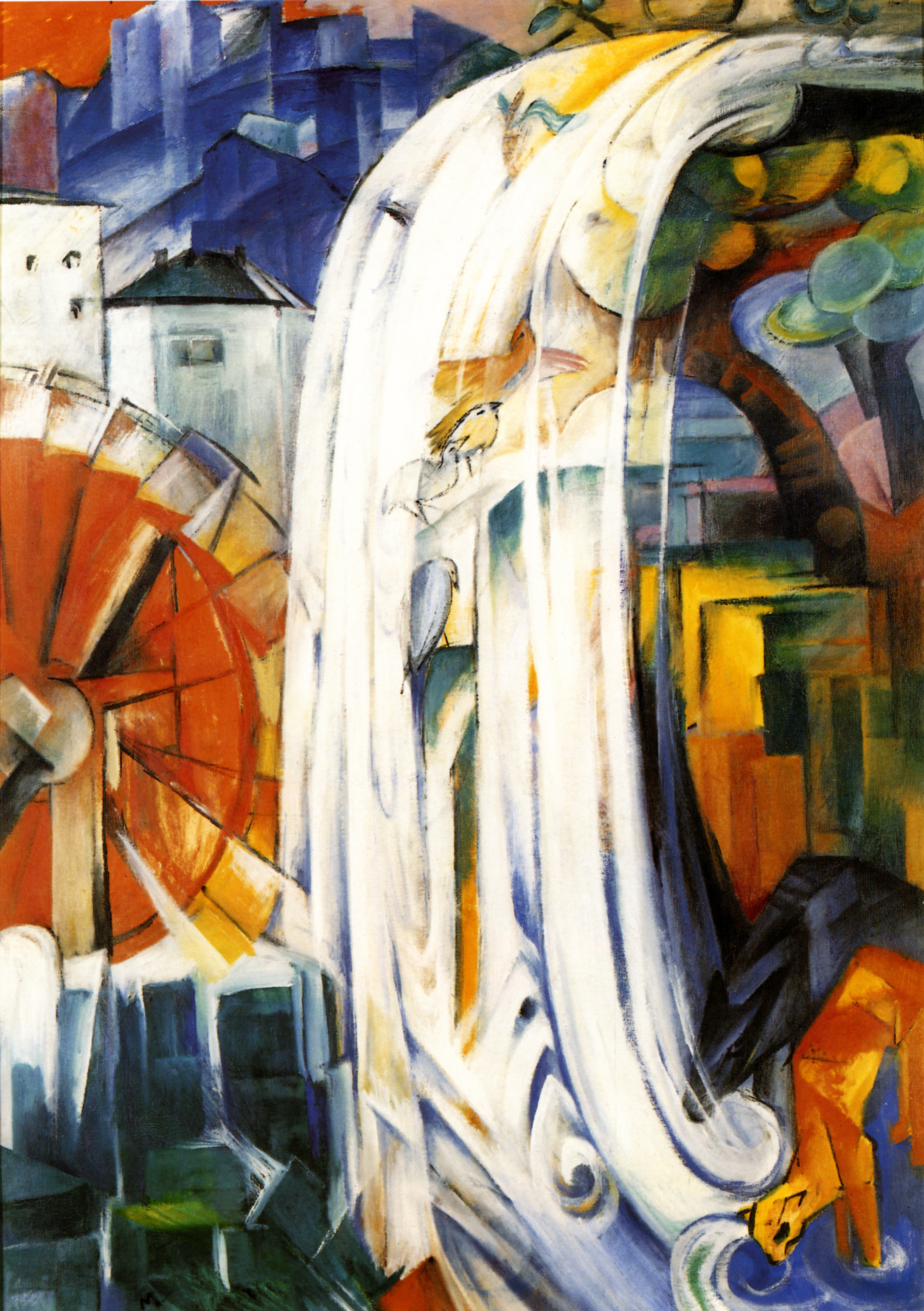 The enchanted mill